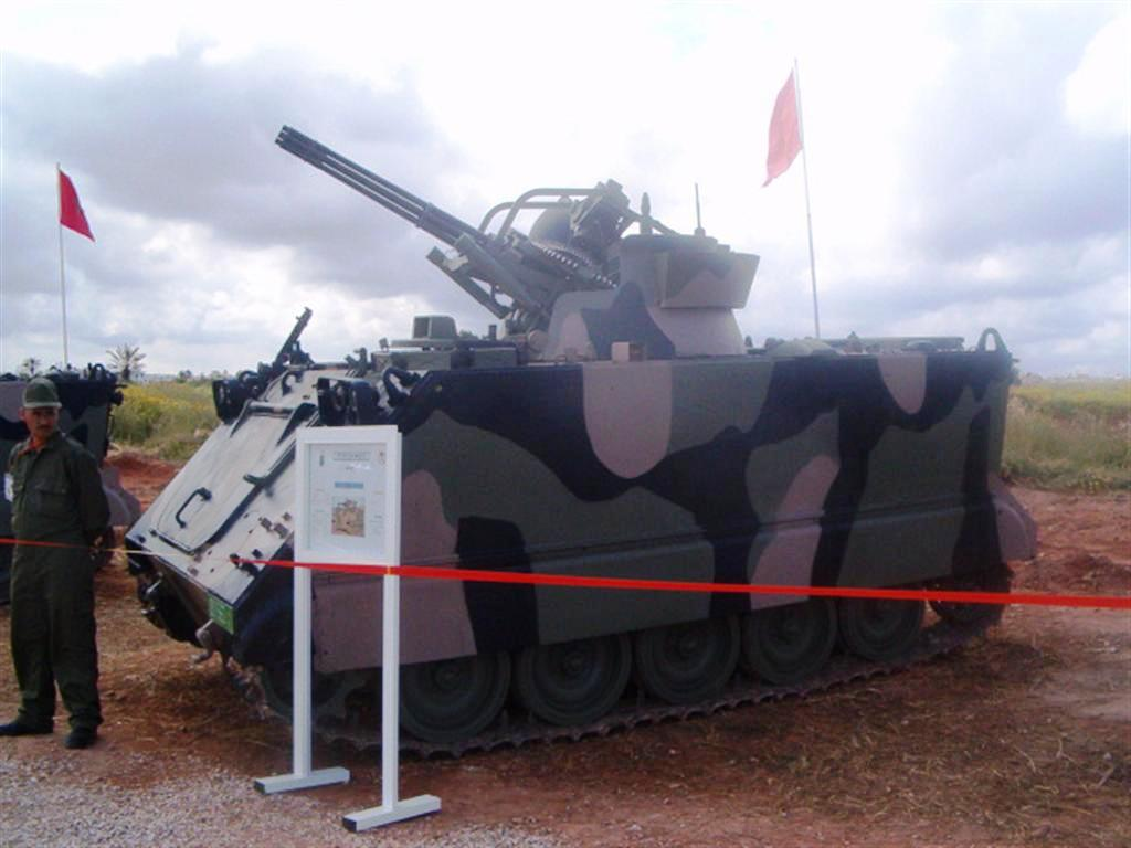 m113